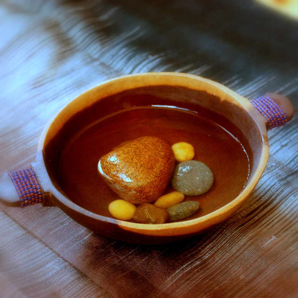 Stone Soup